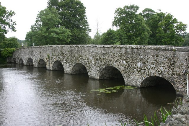 Headford Bridge Where the R163 crosses the River Blackwater